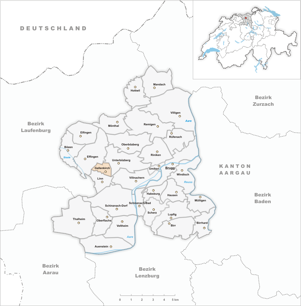 Municipality Gallenkirch